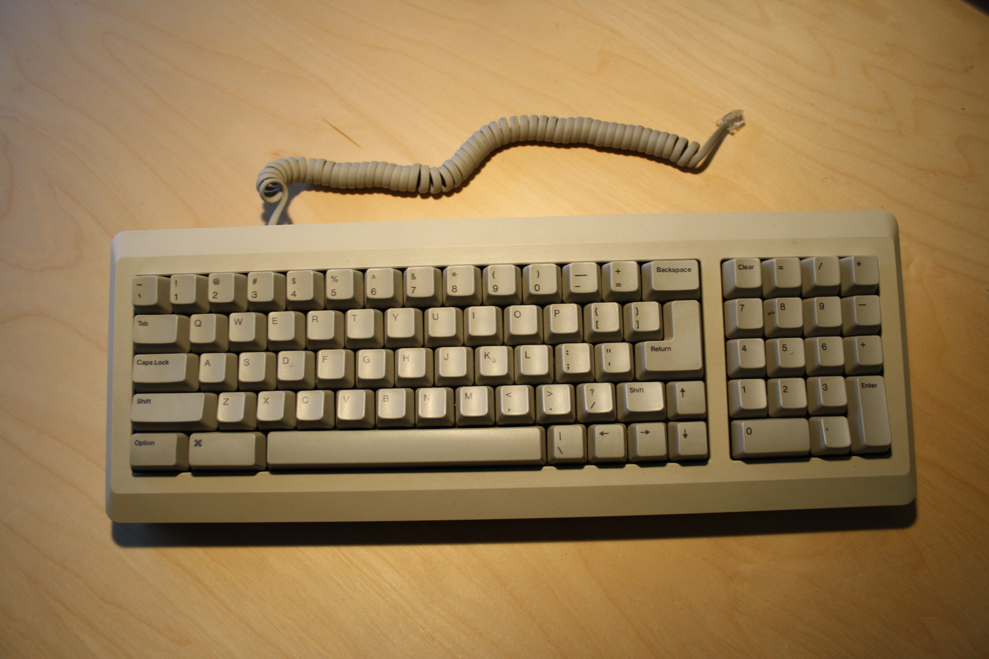 The Macintosh Plus Keyboard uses a cable that is similar to a telephone wire.